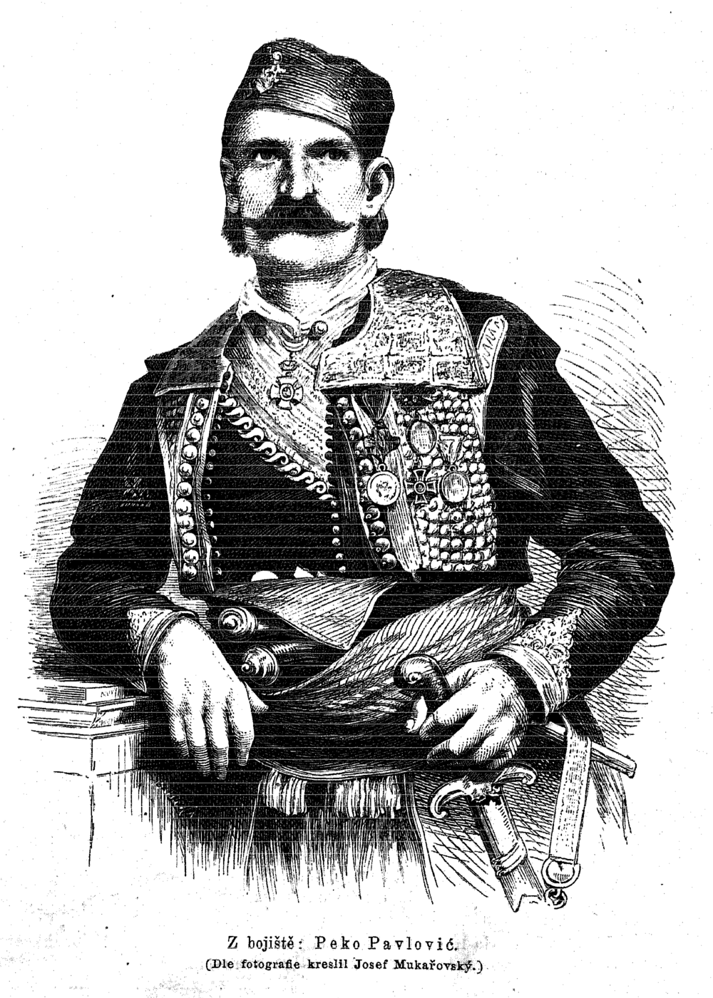 Portrait of Peko Pavlović, military leader of Montenegro during their fight against Turkey.